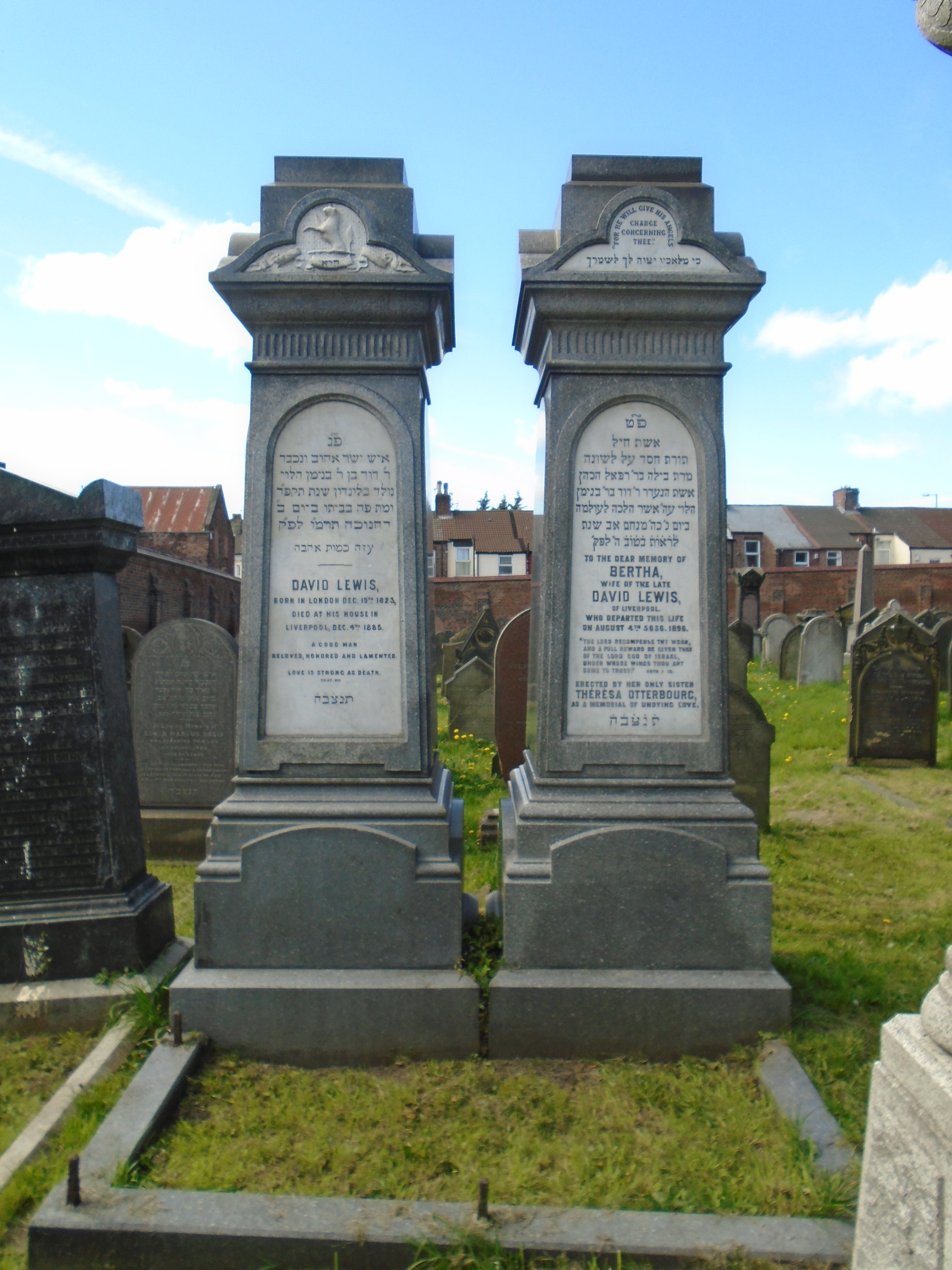 David Lewis (1823 - 1885), founder of Lewis's department store and benefactor of many charitable works.